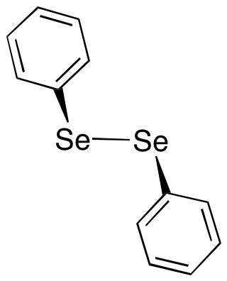 repaired my previous image with more perspective on C-Se distances